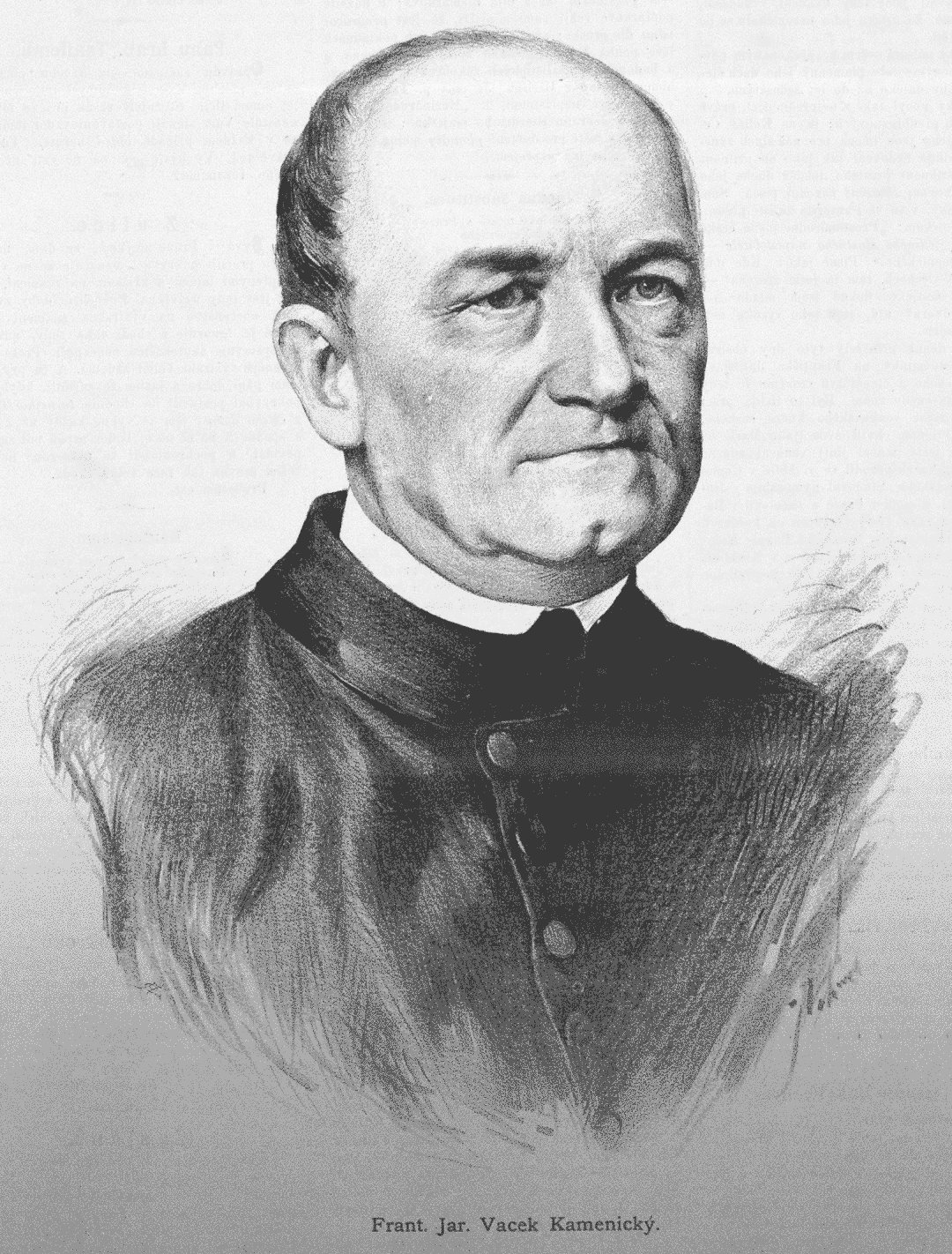 Portrait of František Jaroslav Vacek Kamenický, Czech composer of songs